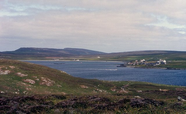 Uyea Isle Looking from Uyea Isle towards Uyeasound.